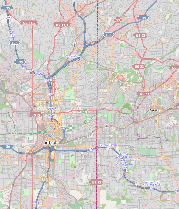 This map may be incomplete, and may contain errors. Don't rely solely on it for navigation. Border coordinates {34.1128 } {-118.3879 }←↕→ {-118.2059 } {33.9876 }